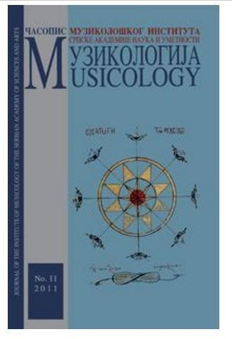 muzikologija